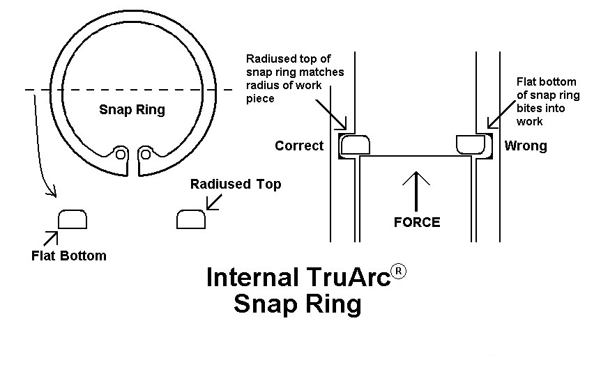 How to properly orient an internal Tru-Arc snap ring in its groove.